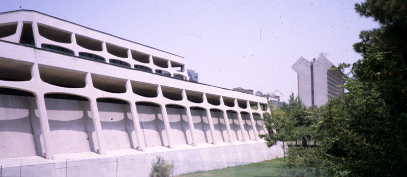 I am the photographer. Scanned from my slides.